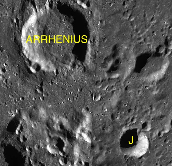 Part of the chart LAC-135 used for the presentation